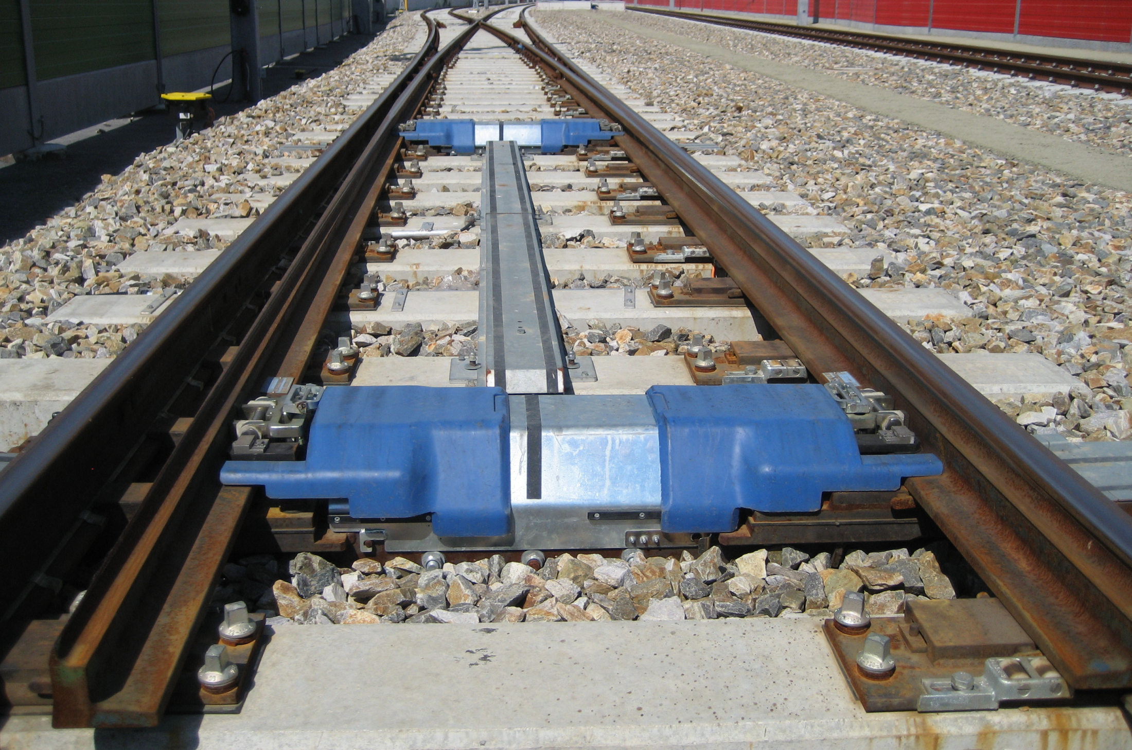 details of a railroad switch